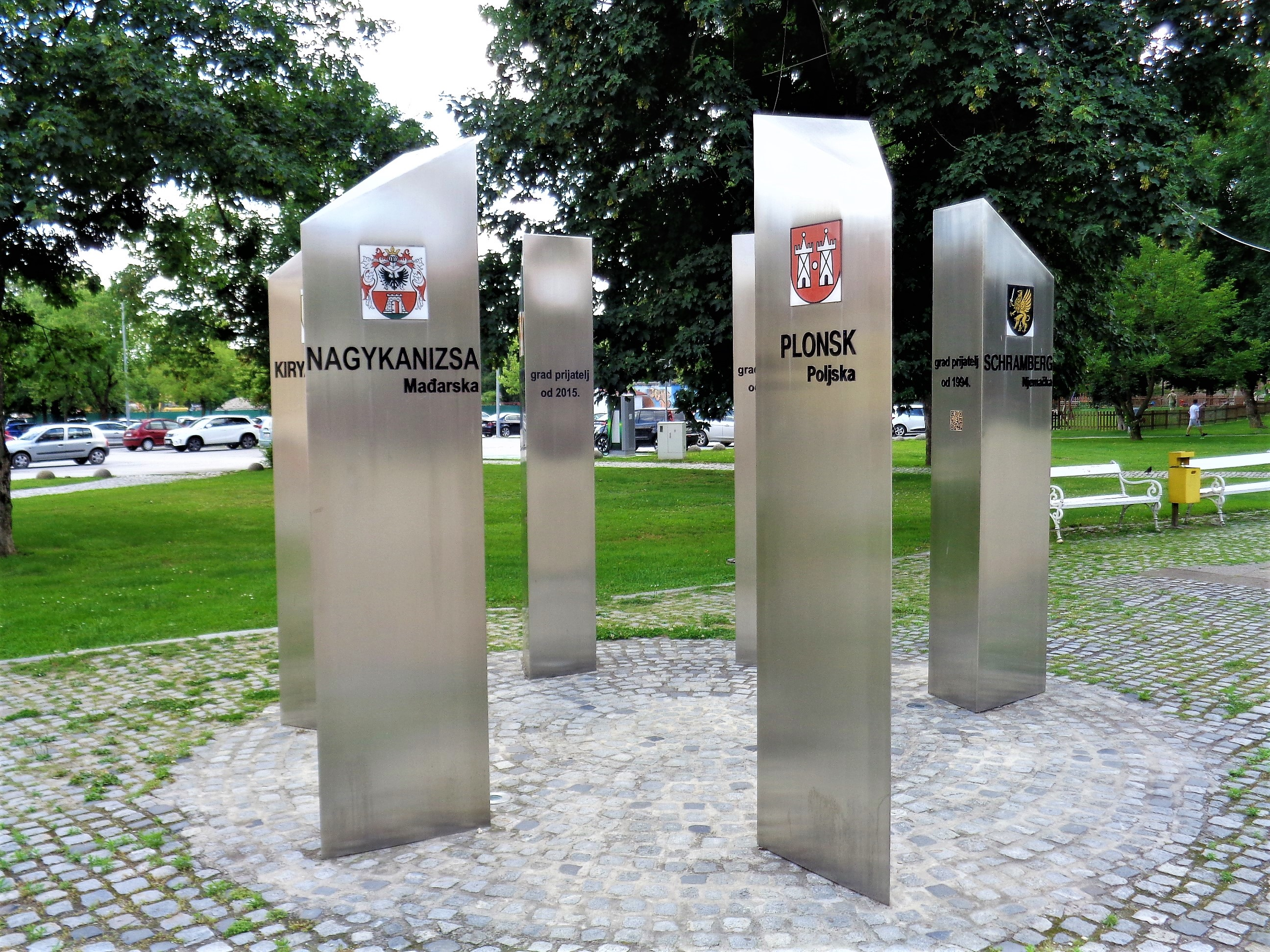 Twin towns of Čakovec – columns on the Republic Square in Čakovec, Croatia